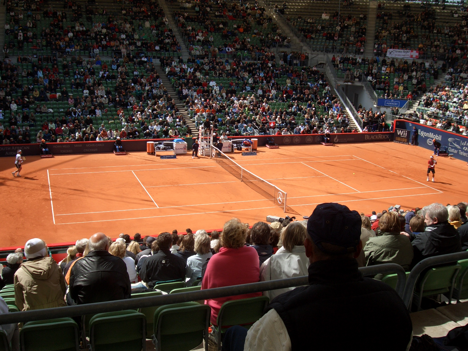 JC Ferrero (left) in his 3rd round match of the Hamburg Masters 07 against Federer